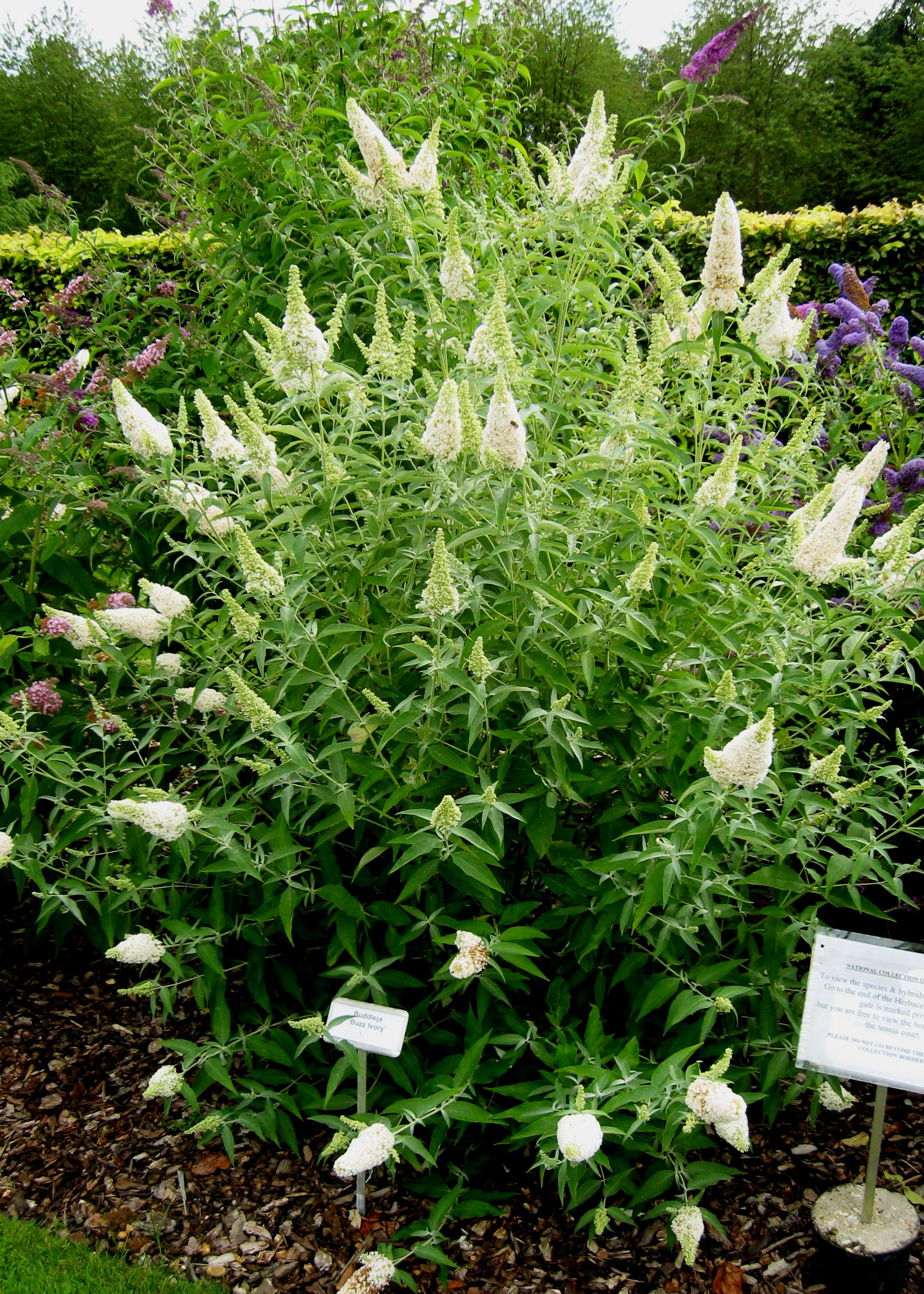 Photo of Buddleja cultivar taken at Longstock Park Nursery, UK, NCCPG national collection holder